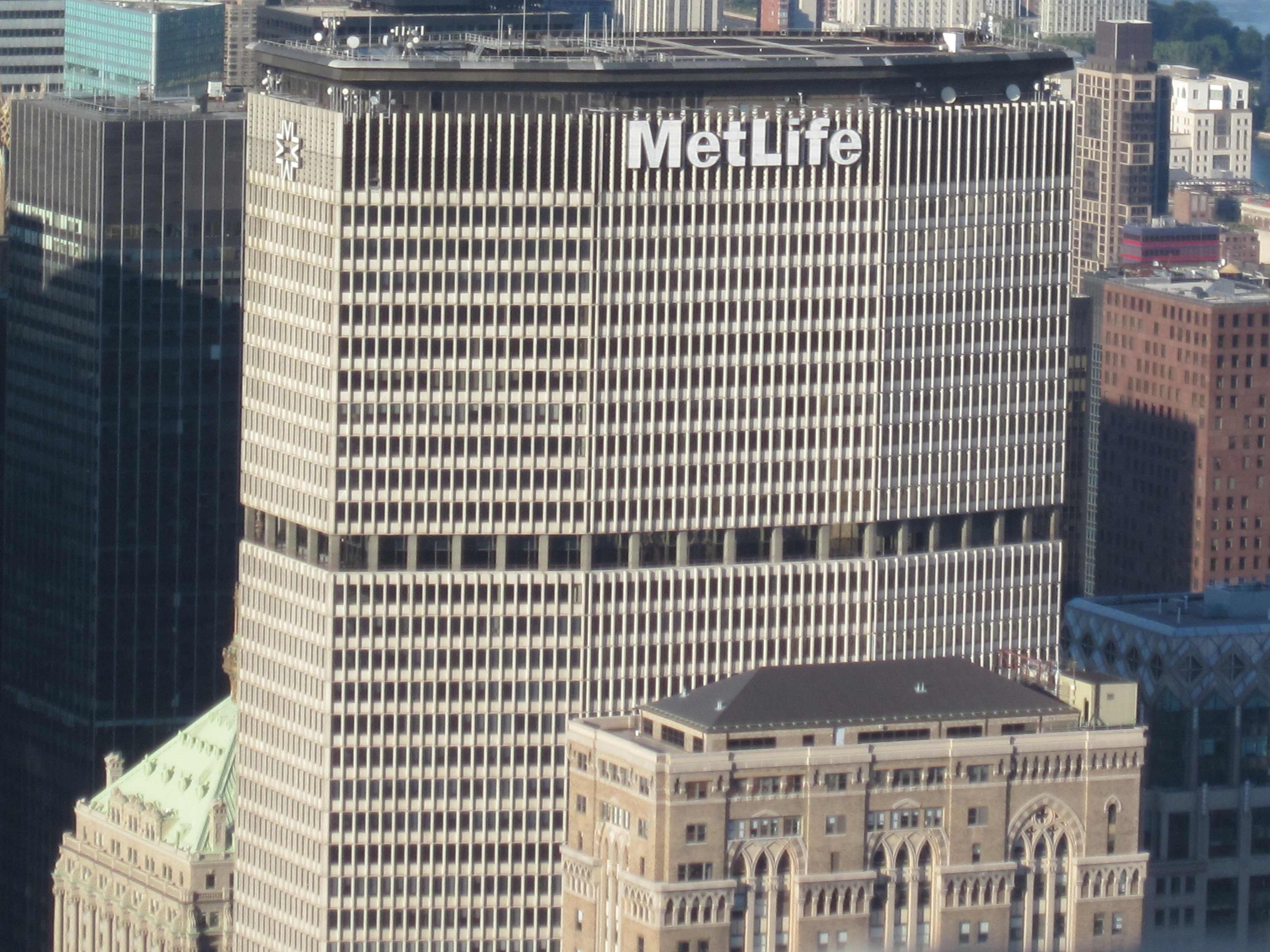 The MetLife Building from the Empire State Building